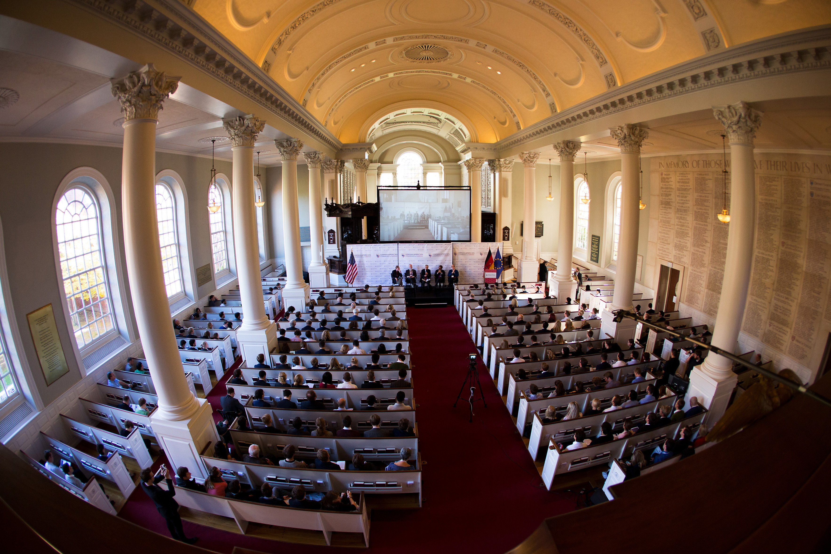 Photo of the German American Conference at Harvard 2015 - Copyright David Elmes